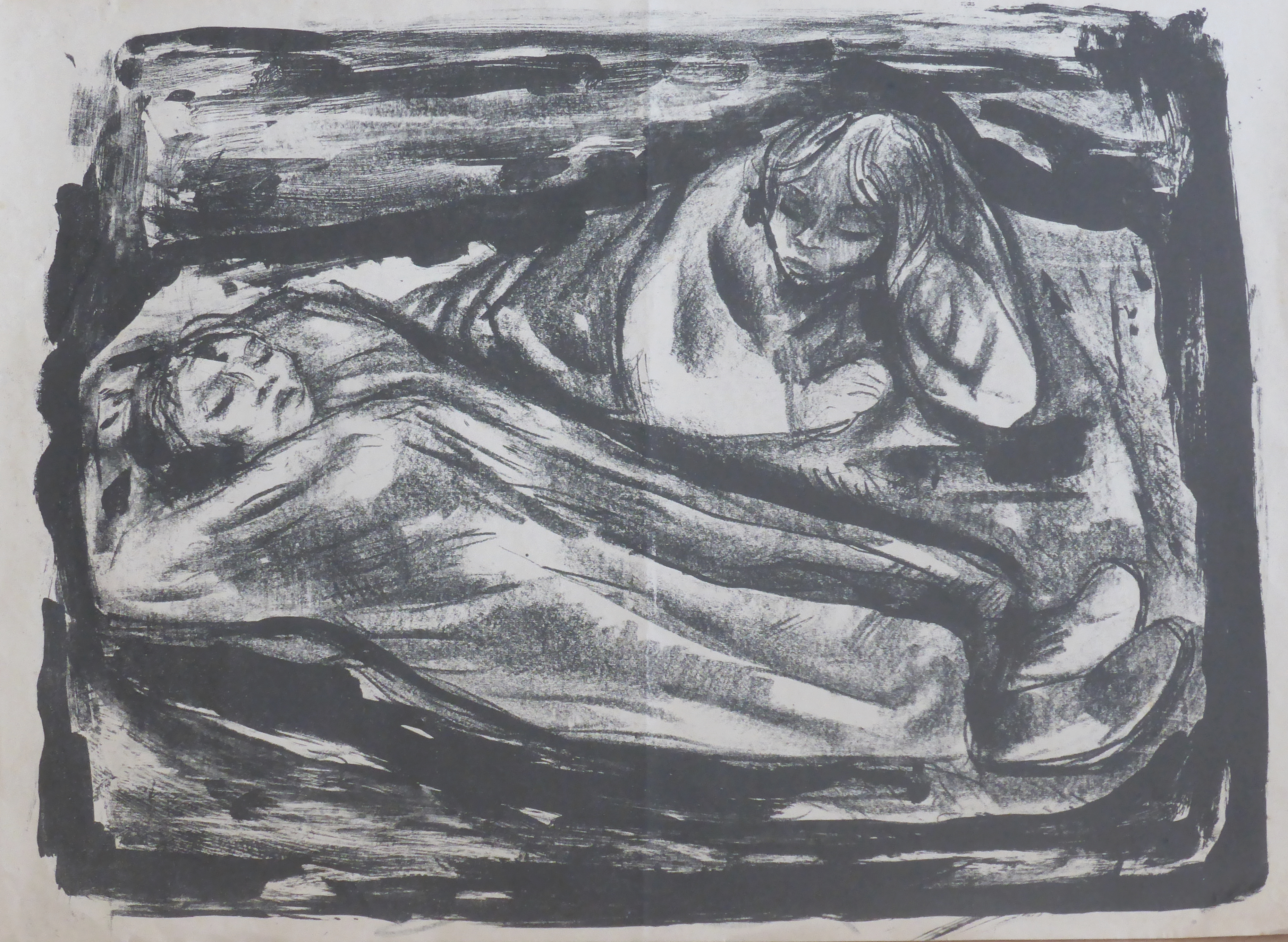 Two girls lying on the ground (lithography)